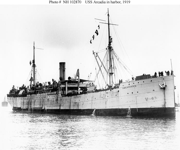 The United States Navy troop transport